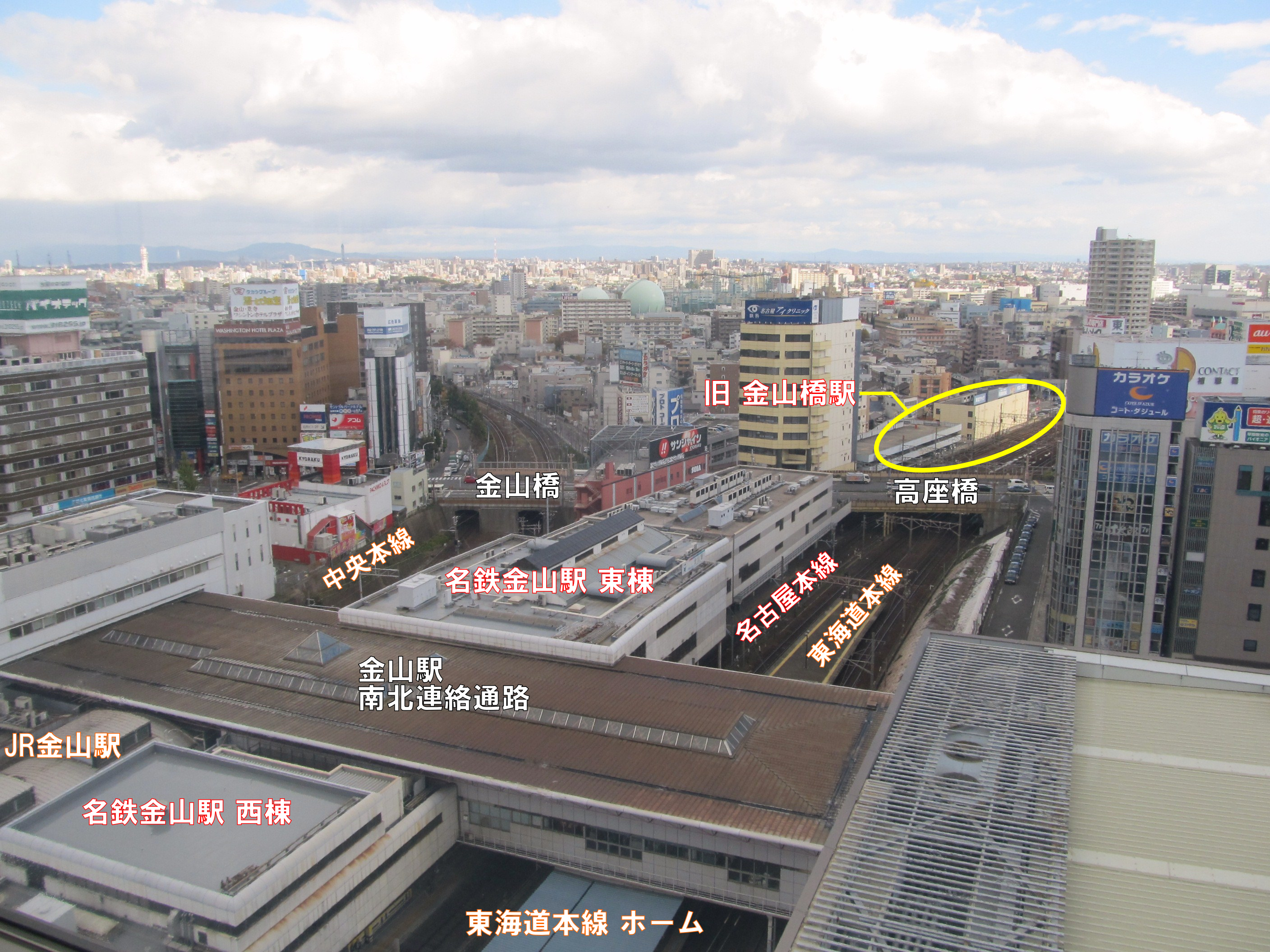 View of Kanayama Station east side.